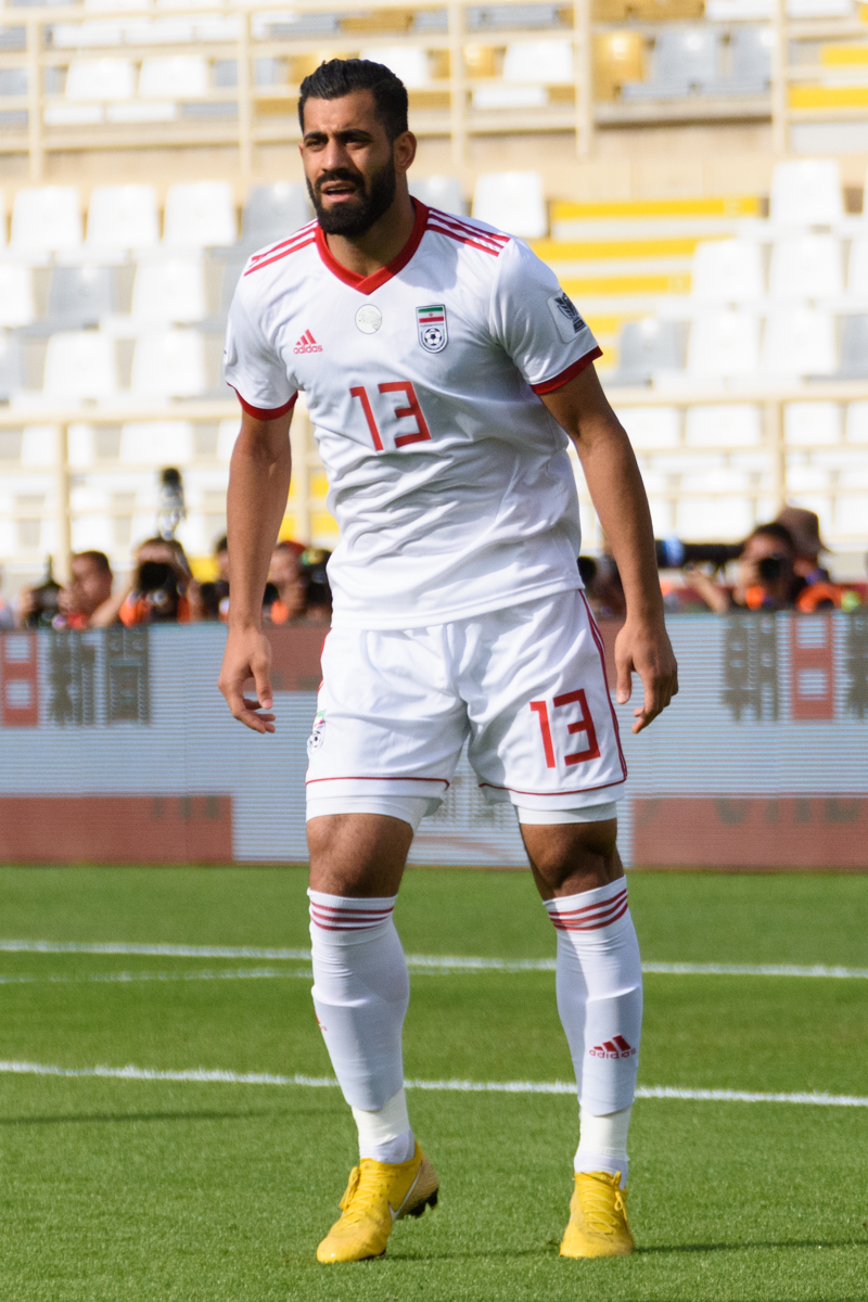 Hossein Kanaanizadegan at the Asian Cup 2019